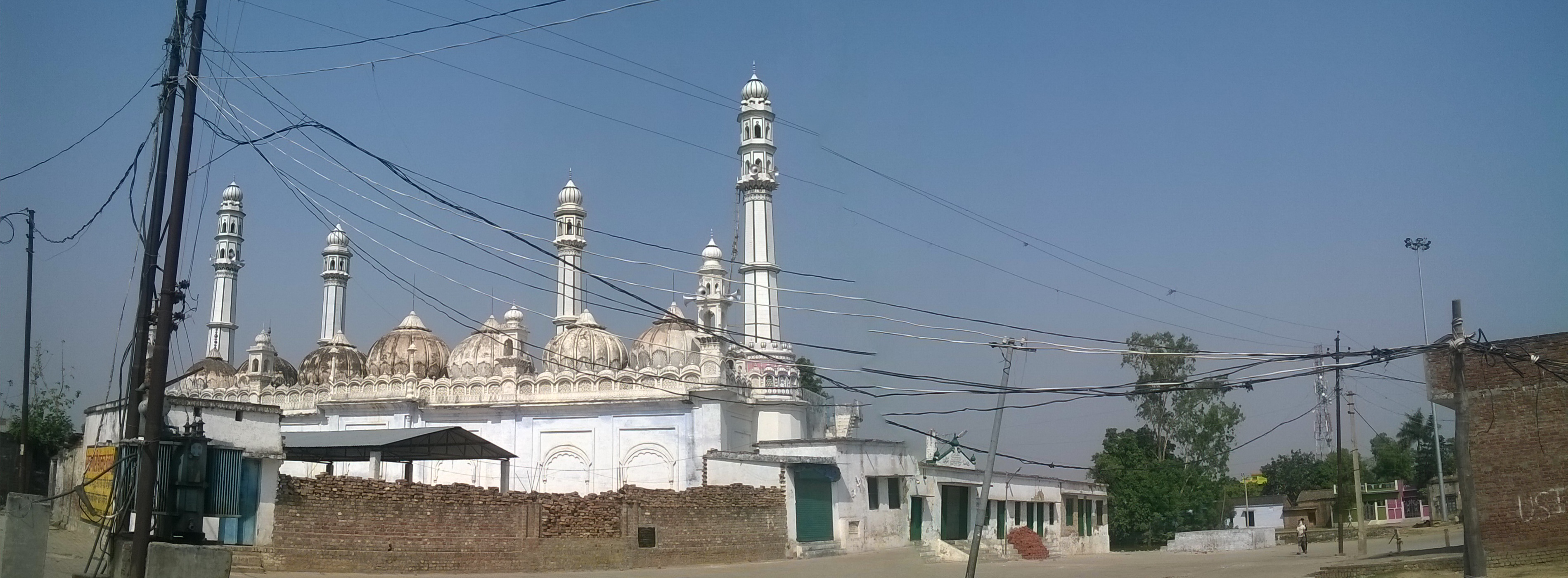 Shahi Jama Masjid Of Nanpara bulid by Raja of Nanpara Estate Bahraich